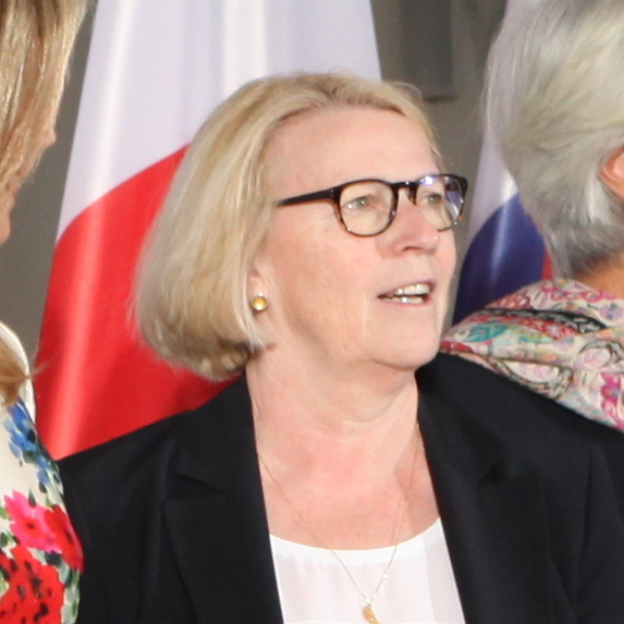 1-L to Rː Director BRCK Juliana Rotich, Vice-Chairman of Bank of America Anne Finucane, Canadian Minister of Foreign Affairs Chrystia Freeland, Ivanka Trump, President of the Association of German Women Entrepreneurs, Stephanie Bschorr, Angela Merkel, Queen Máxima of the Netherlands, President National Council of German Women's Organizations, Mona Küppers, International Monetary Fund (IMF) Managing Director Christine Lagarde, President and Chairwoman of Trumpf GmbH Nicola Leibinger-Kammüller and moderator Miriam Meckel.